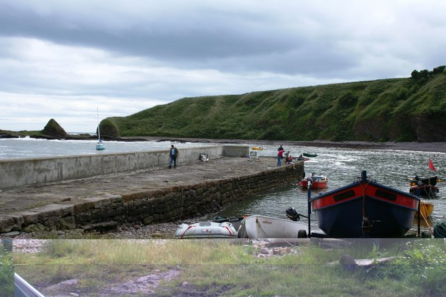 Catterline Pier The tiny pier at Catterline still in everyday use by small craft.